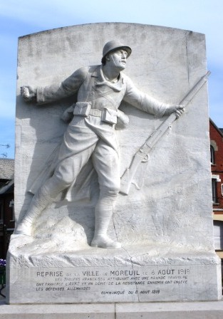 The monument aux morts at Moreuil